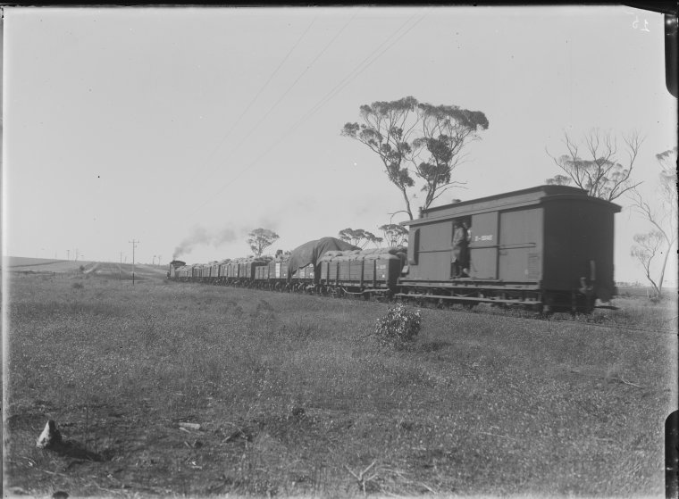 Photographic Negative - Glass. Wheat train loaded with bags of wheat leaves Wubin 1922.